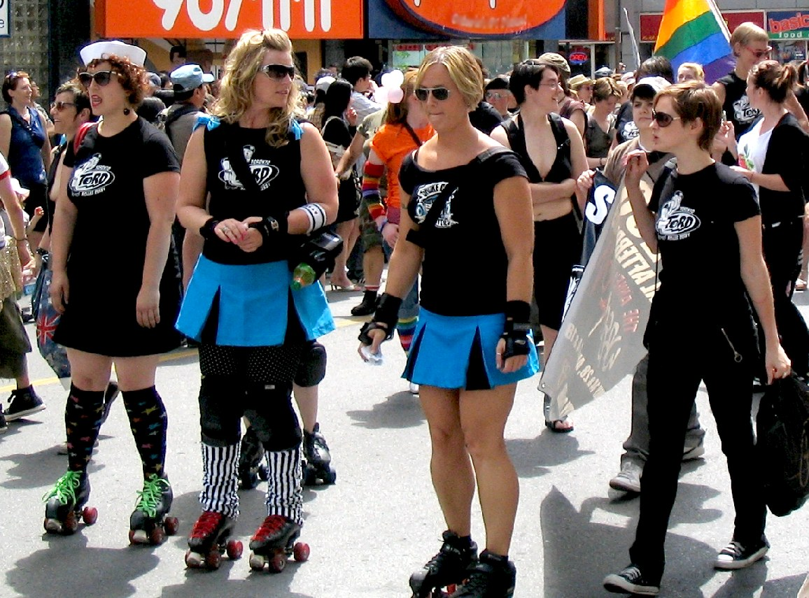 Smoke City Betties at the Pride Toronto Dyke March in 2007.